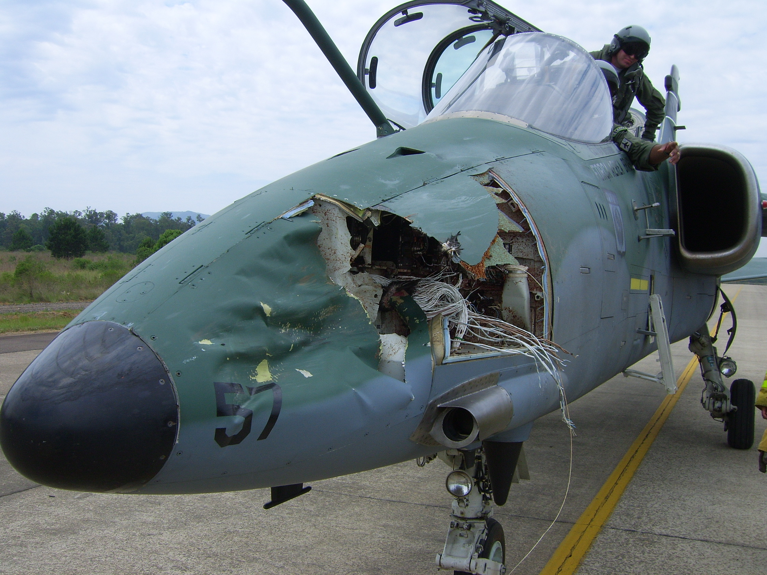 Bird Strike - aircraft AMX - Brazilian Air Force